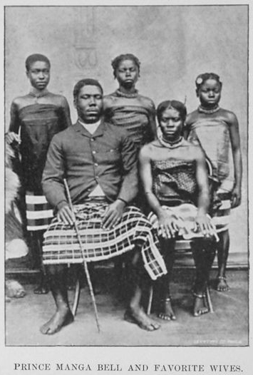 Prince Manga Bell and Favorite Wives. From Smith, Charles Spencer Glimpses of Africa, West and Southwest coast ; containing the author's impressions and observations during a voyage of six thousand miles from Sierra Leone to St. Paul de Loanda and return, including the Rio del Ray and Cameroons rivers, and the Congo River, from its mouth to Matadi (published 1895 p176).